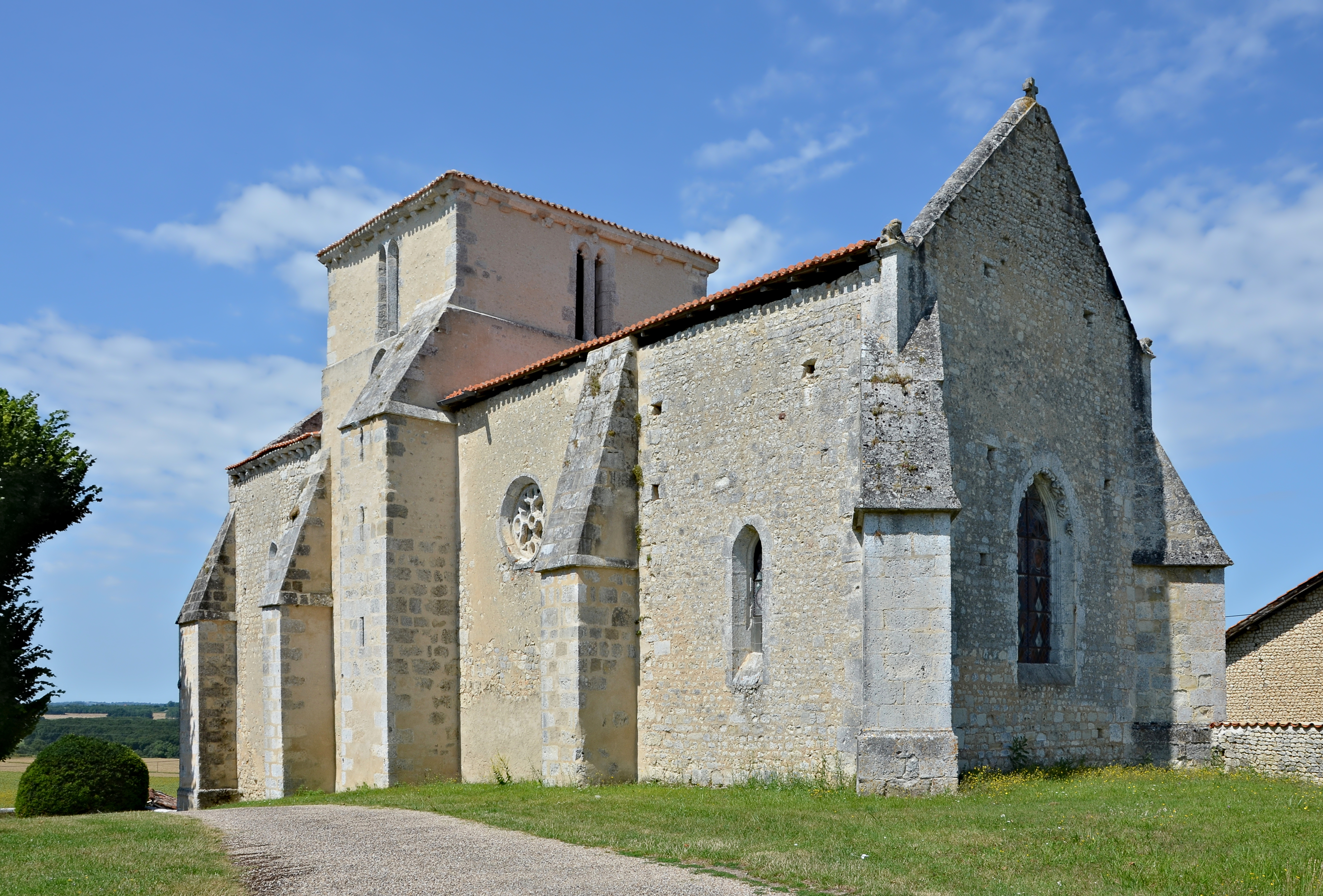 Romanesque church (first settlement 12 th century) of Brie-sous-Barbezieux, Charente,France.